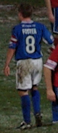 Martin Foster. Image cropped from original at flickr.